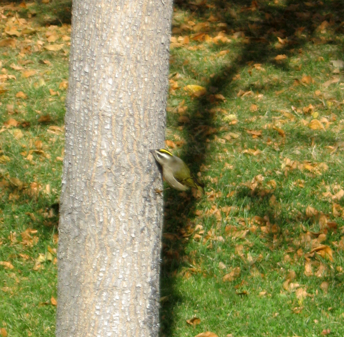 Golden-crowned Kinglet foraging for insects on the grounds of the Maryhill Museum, Maryhill, Washington, USA